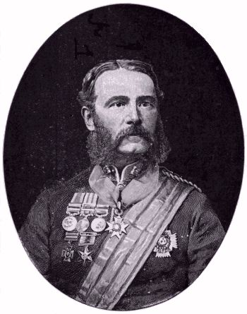 An inscription of the Major General Henry Tombs (10 November 1825 – 2 August 1874) VC KCB who served in the First Anglo-Sikh War, Second Anglo-Sikh War, Bhutan War and Indian Mutiny